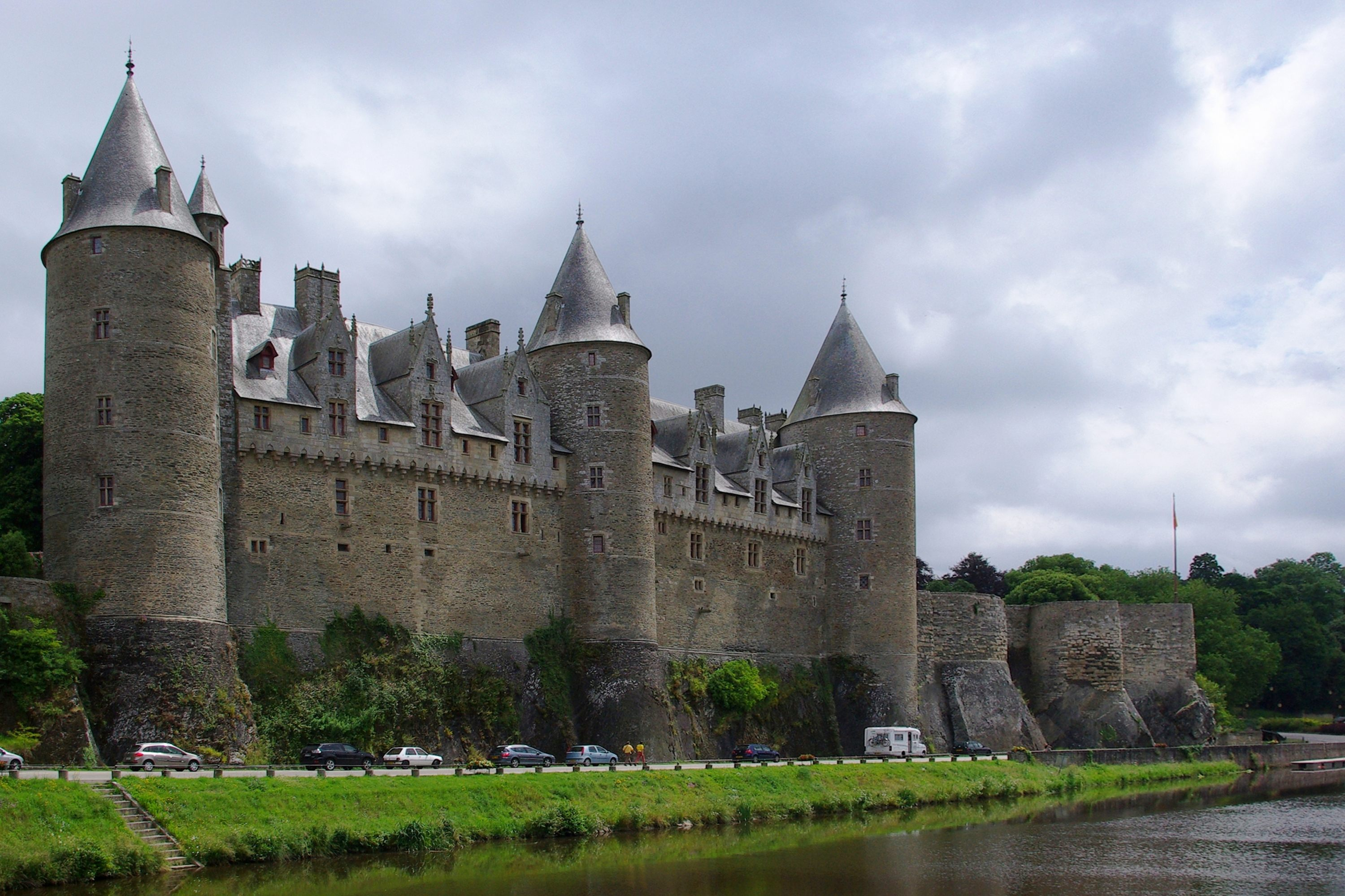 SW facade of the Rohan family's castle, Josselin, Morbihan, France. .